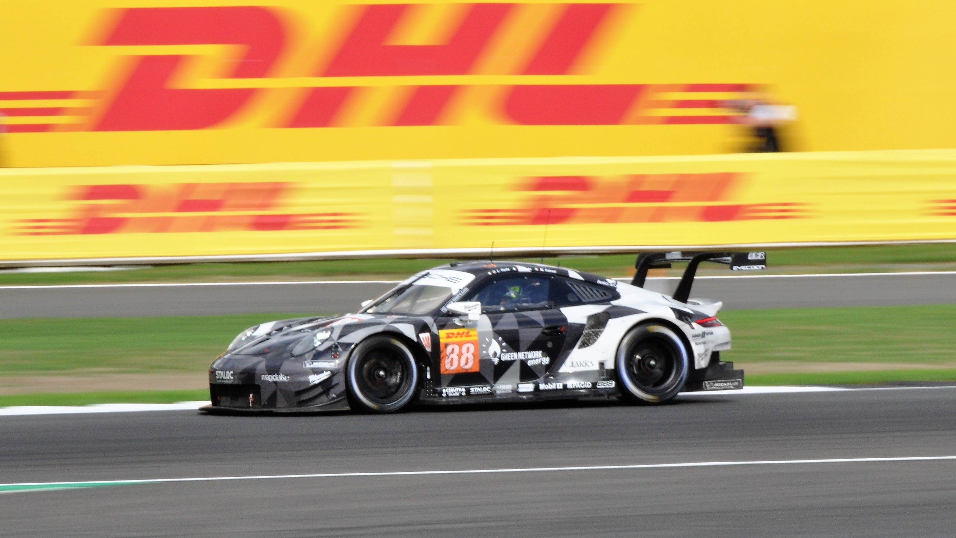 Italian driver Giorgio Roda in the number 88 Dempsey-Proton Racing-entered Porsche 911 RSR, at Vale during the 2018 6 Hours of Silverstone. Roda and his co-drivers, compatriots Gianluca Roda and Matteo Cairoli, finished eighth in the LMGTE Am class.